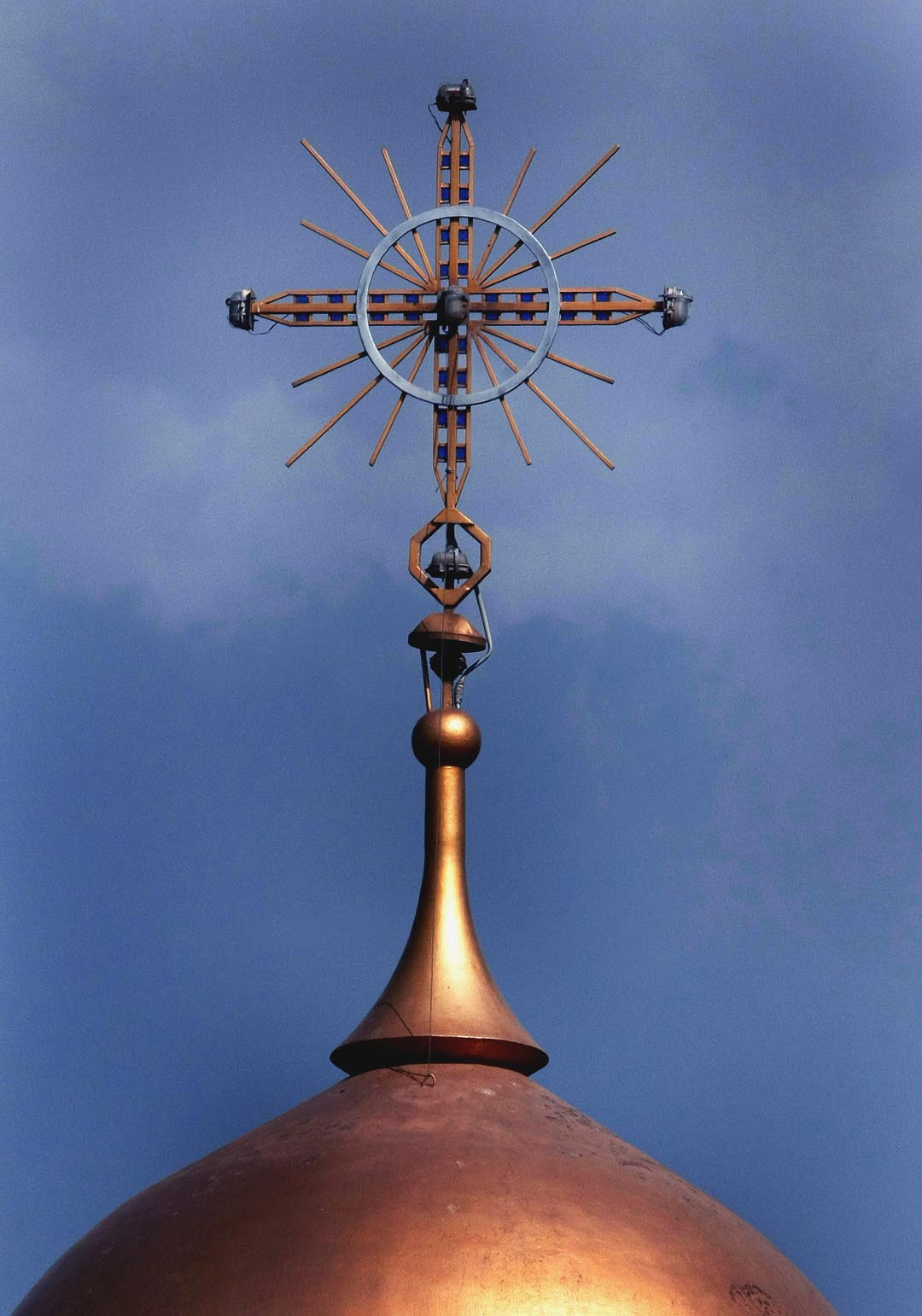 Typical of the domes and crosses atop Ethiopian Orthodox Churches.